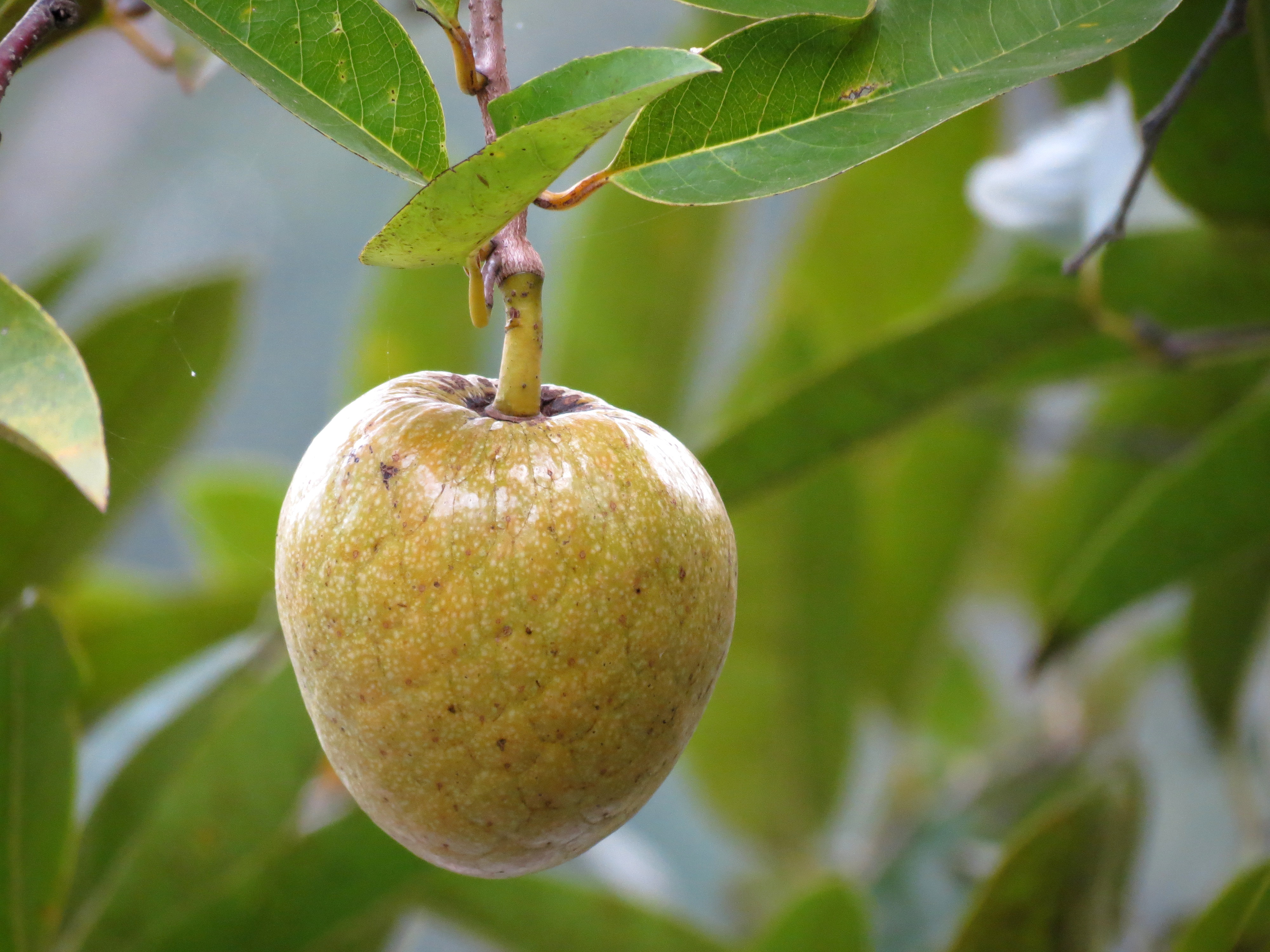 Annona_reticulata, Custard Apple